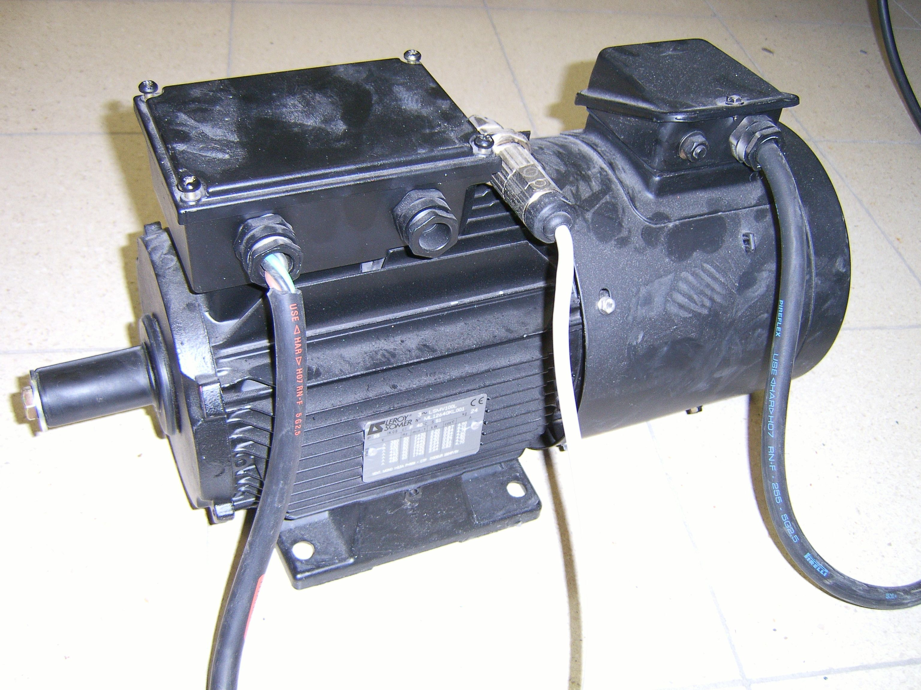 Leroy Somer LSMV 100 L 2.2kW three-phase induction motor with encoder